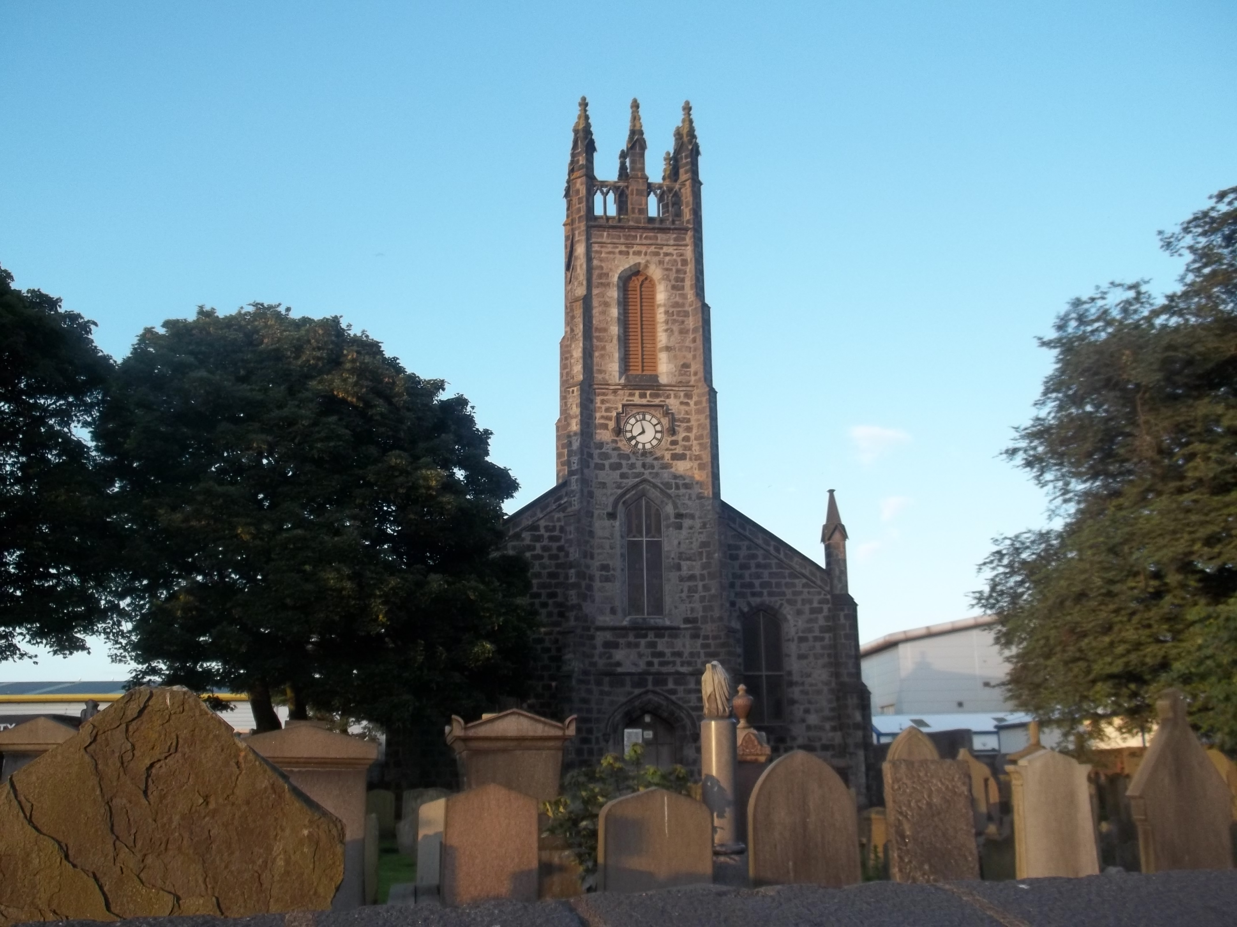 St. Clements Churchyard, St. Clements Street, Aberdeen